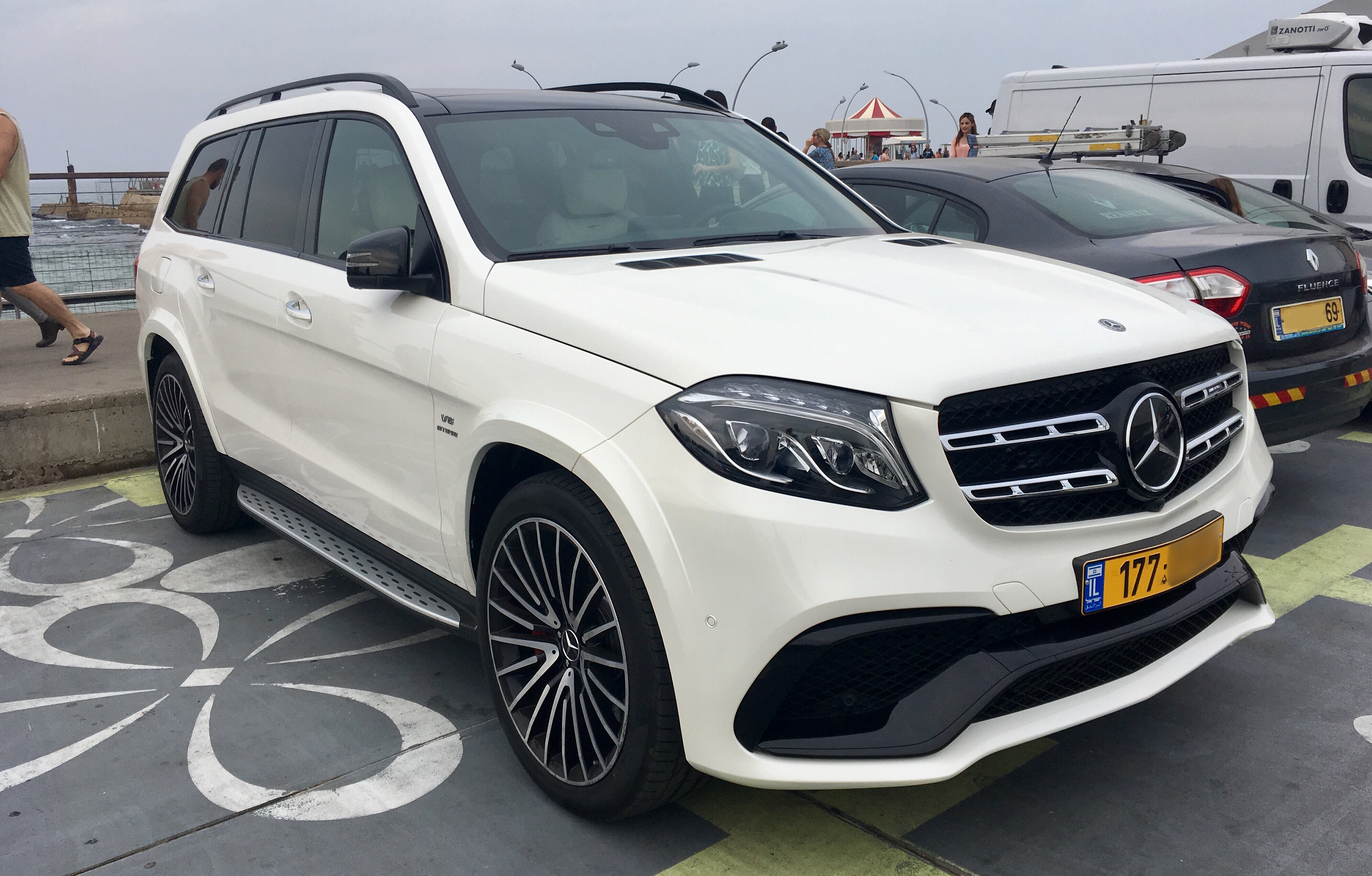 GLS 63 AMG